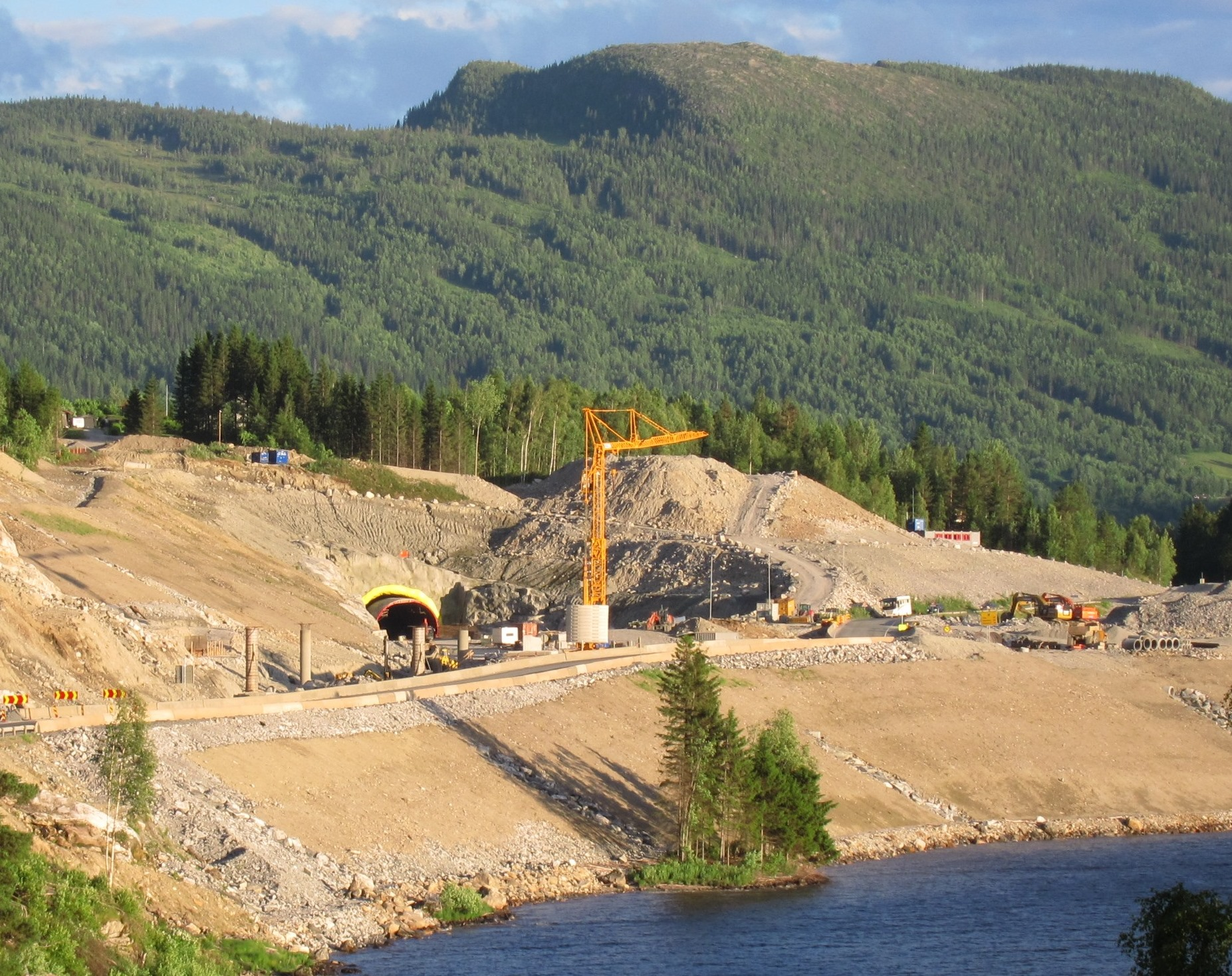 New road 7 under construction at Ørgenvika, Buskerud, Norway. Ørgenvika tunnel entrance near Krøderen lake